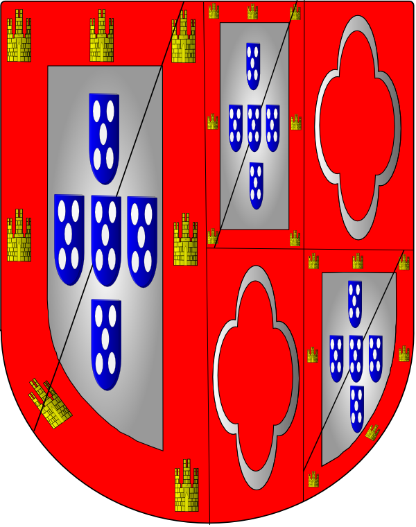 Arms of the Portuguese Dukes of Lafões. Made by JSobral